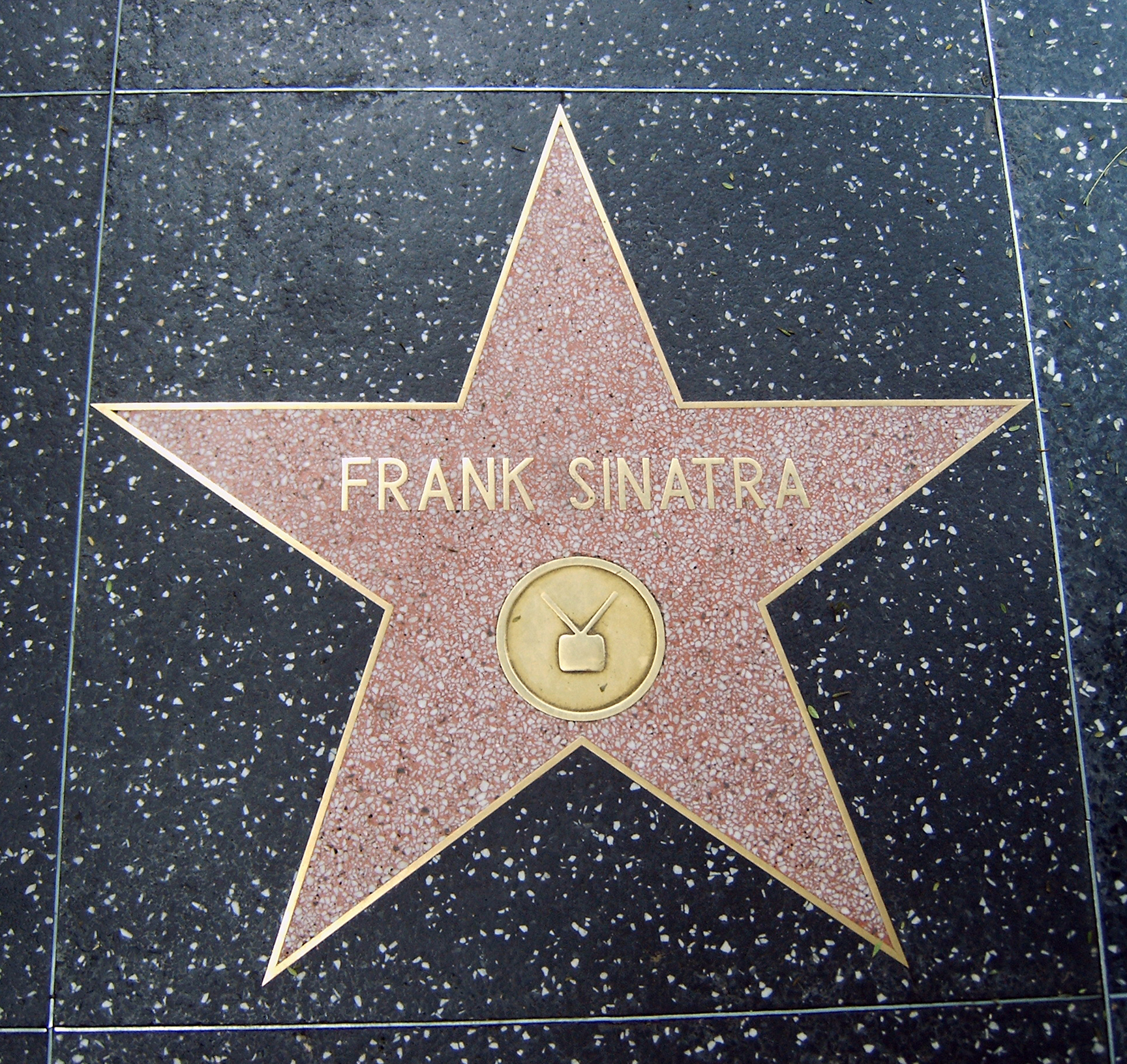 Frank Sinatra's star on the Hollywood Walk of Fame, located at 1637 Vine Street, Hollywood, California